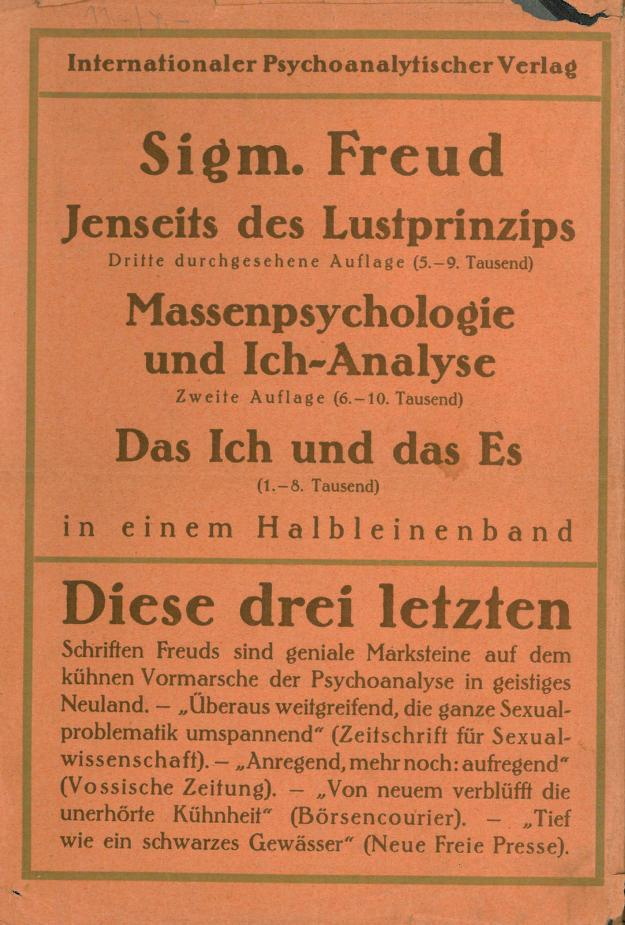 Front wrapper of the 1923 issue of three Freud texts